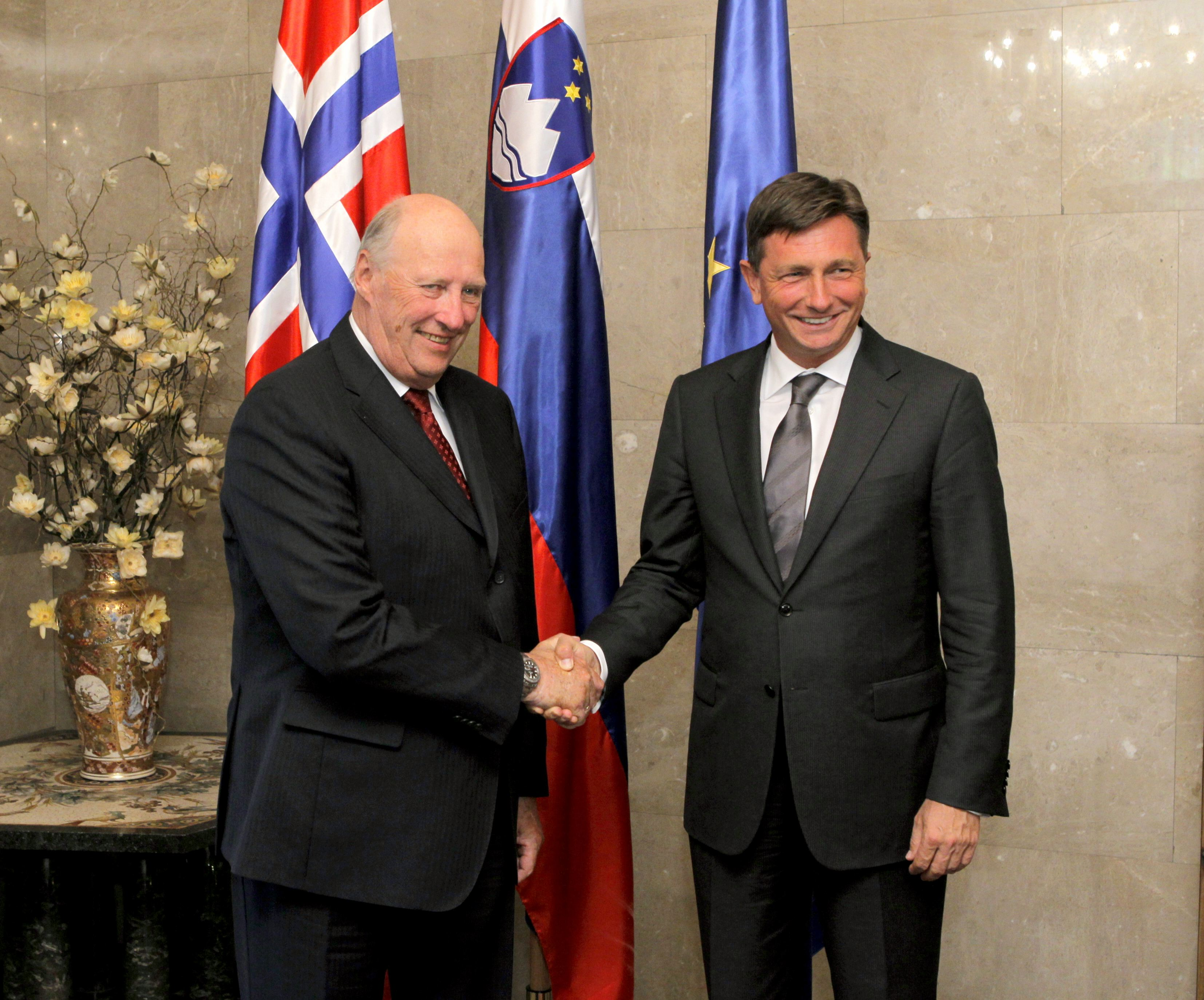 Harald V and Sonja of Norway in Slovenia in 2011